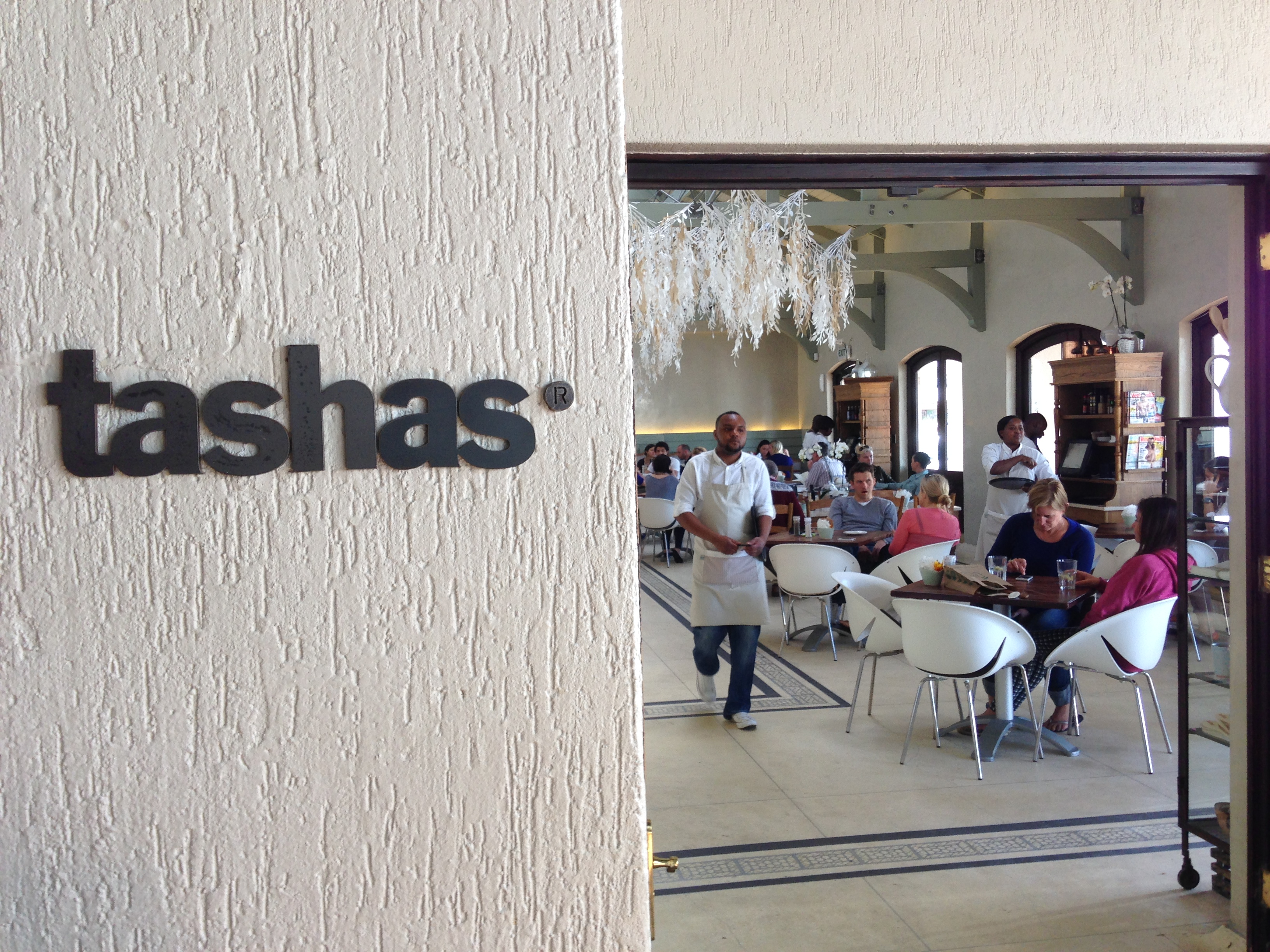 A view of the Tashas restaurant in Constantia, Cape Town. Tashas is an upmarket South African restaurant franchise owned by Famous Brands.